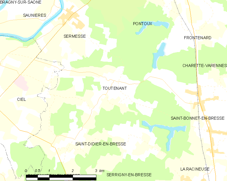 Map of French municipality